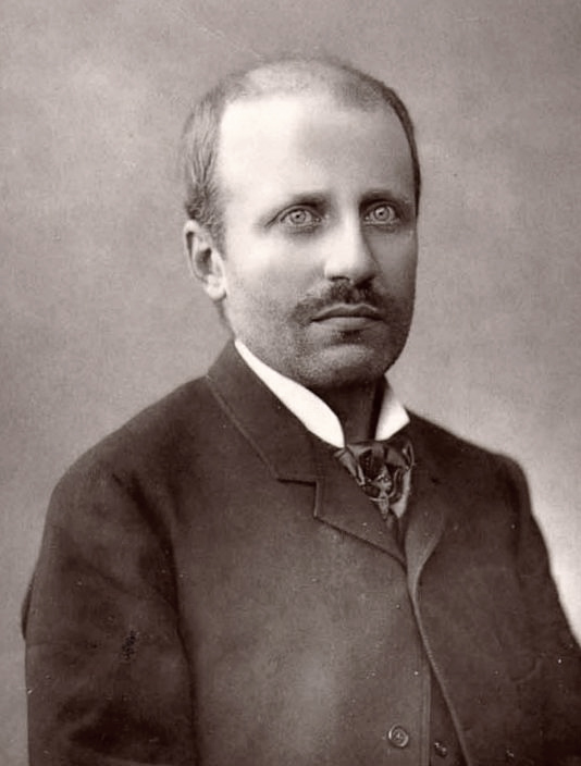 Photo of Philipp von Ferrary (1850-1917)